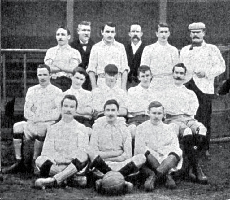 The Alumni squad that won the Tie Cup after beating Rosario AC in the final match at Lomas AC field. Players are: Fltr (Back) W. Buchanan, A. Coste, T. McKeon. (middle): E. Moore, E. Brown, A. Mack, T. Brown, W. Jordán. (front): H. Jordán, S. Leonard, J. Moore.